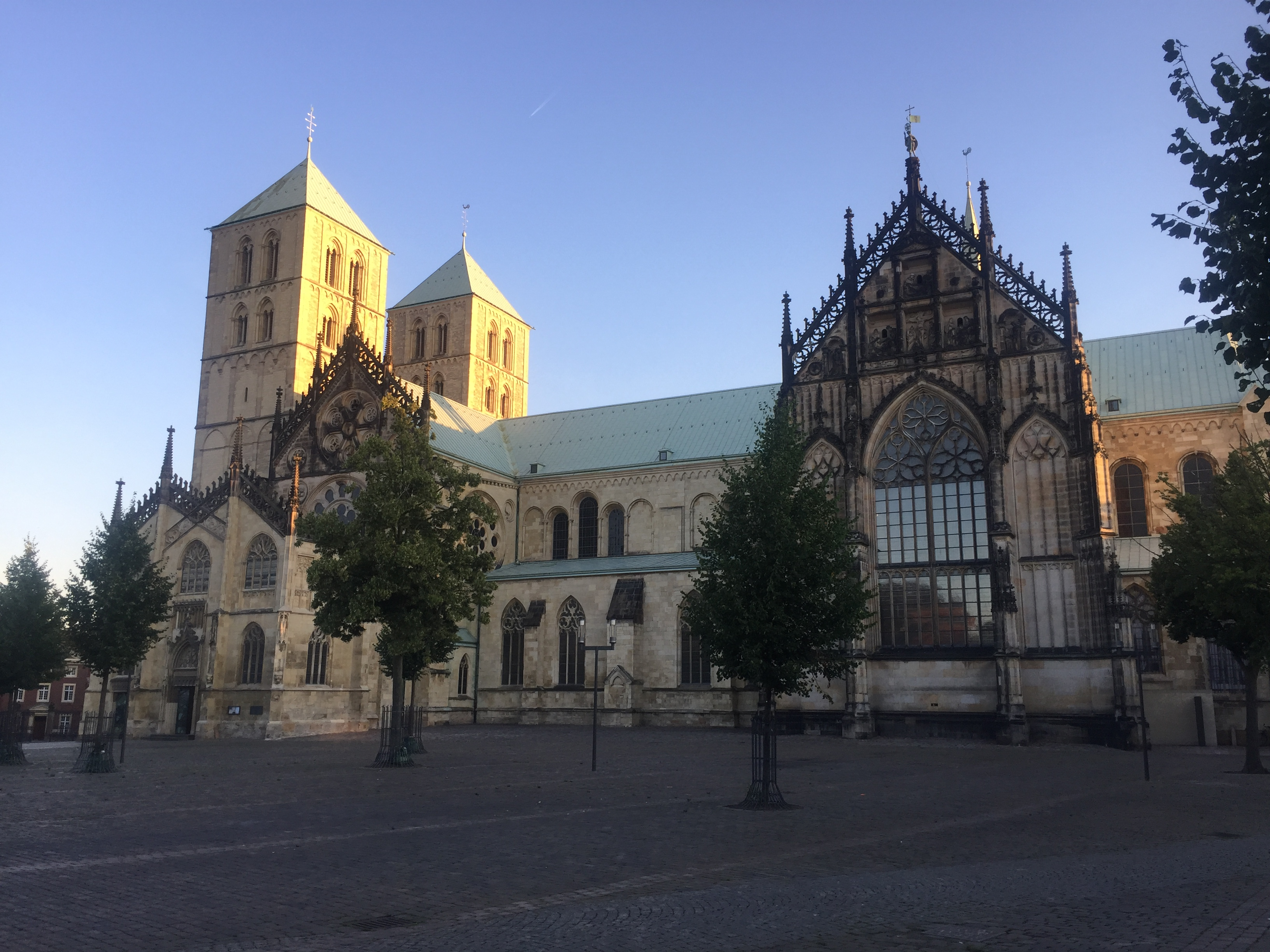 A view of the Münster Cathedral from the Domplatz